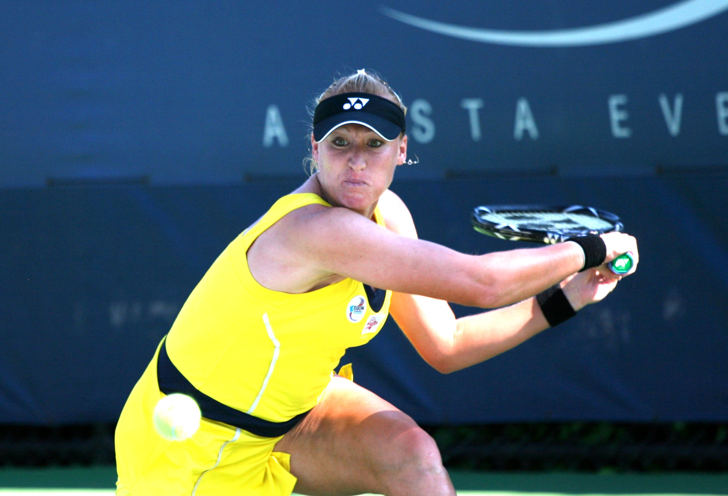 U.S. Open Tuesday, Aug. 30, 2011